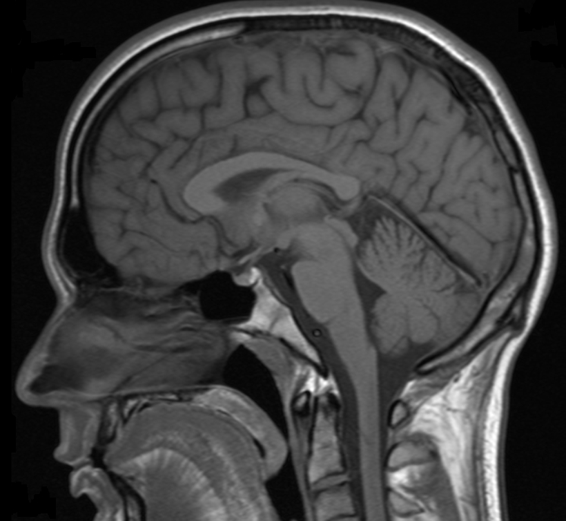 MRT scan of human head.